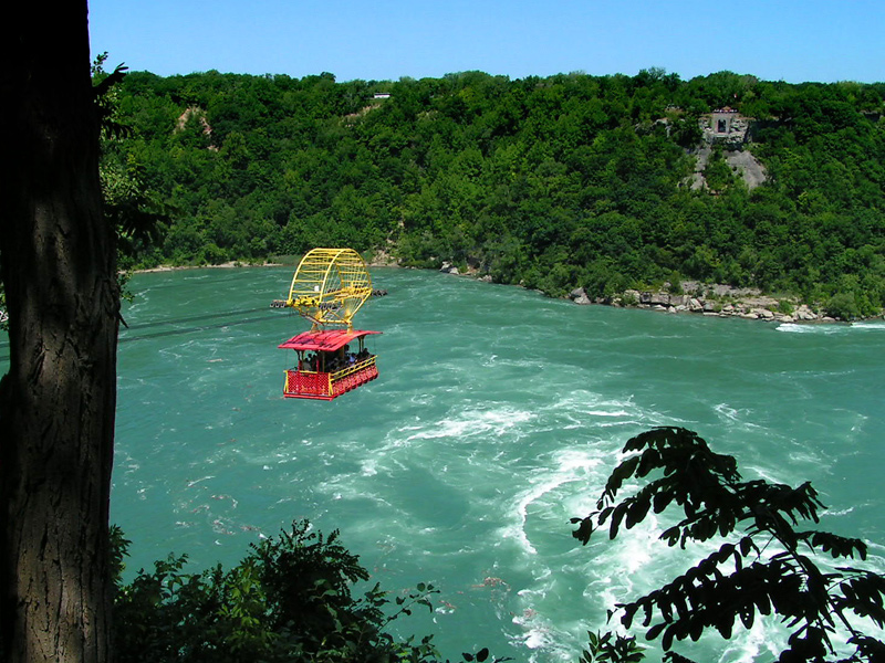 Niagara Falls, Ontario, Canada. The aero car crossing the Whirlpool on Niagara River.